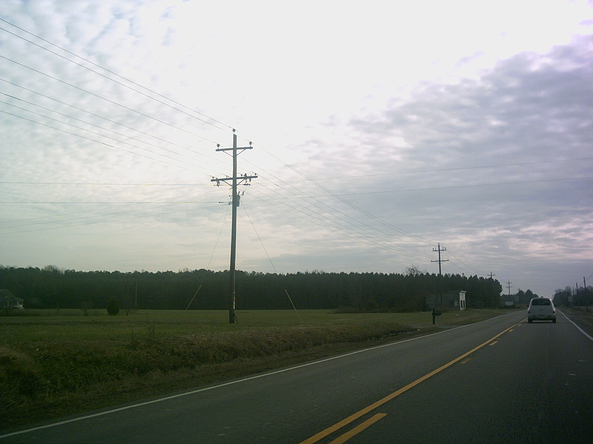 Image taken by me for Wikipedia